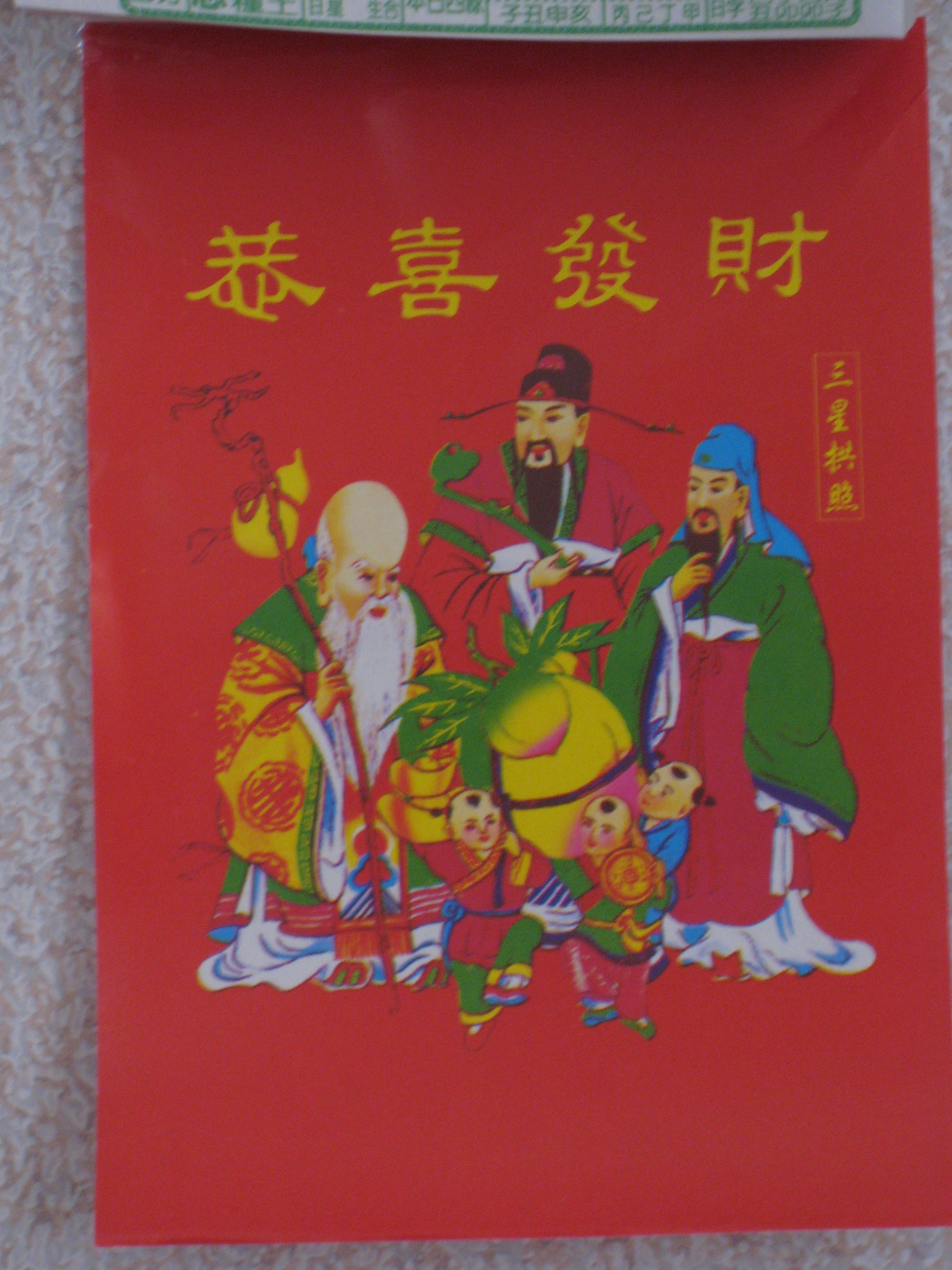 Picture of Fu lu shou